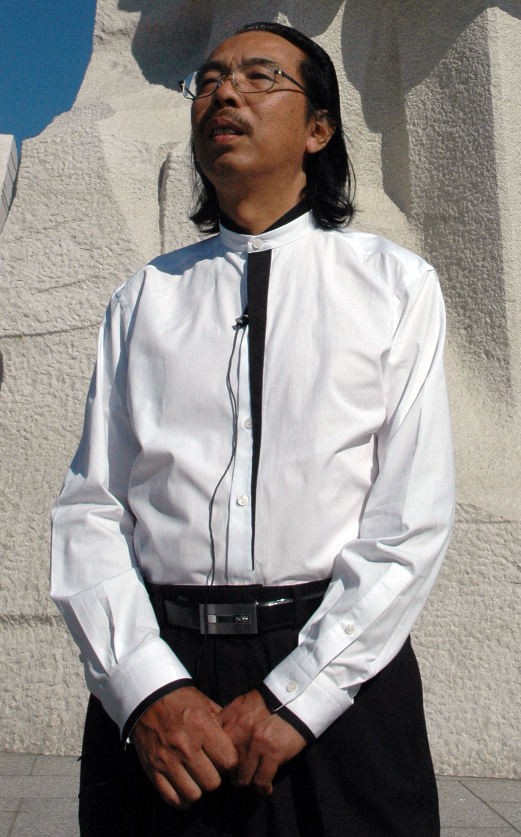 Sculptor Lei Yixin standing in front of his sculpture, the Stone of Hope, at the Martin Luther King, Jr. National Memorial in Washington, D.C.